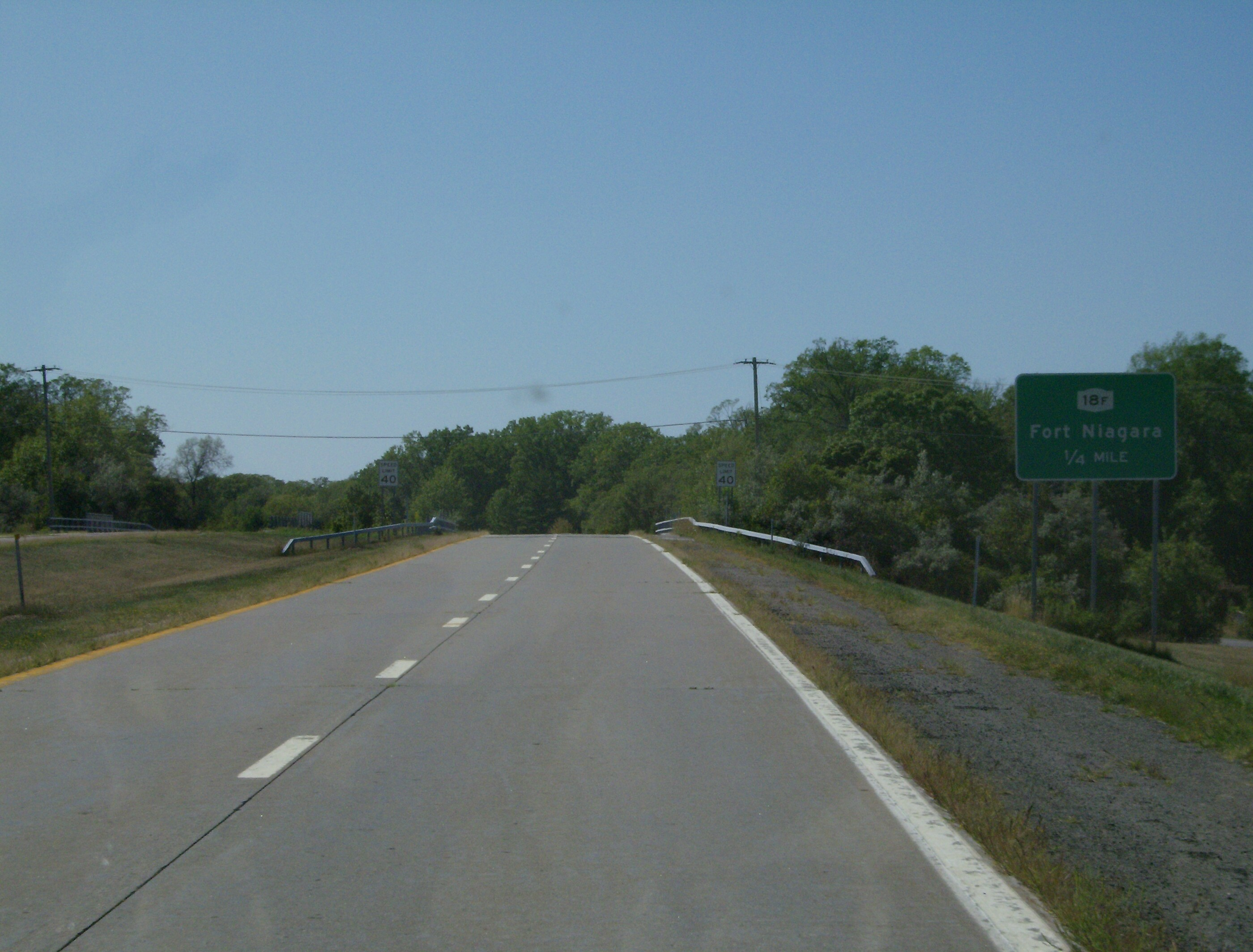 Approaching New York State Route 18F on the Fort Niagara spur of the Robert Moses State Parkway westbound in Porter.